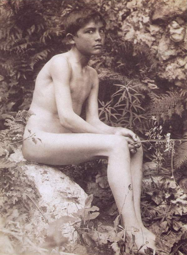 Wilhelm von Gloeden (1856-1931). Catalogue number: 1081.